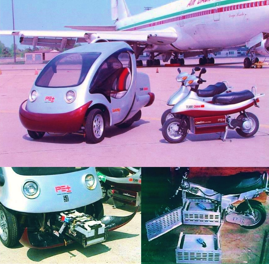 Bottom left, The Sunray's front bumper flipped down and the battery cartridge easily rolled out so a freshly charge battery could replace it in minutes. Bottom right, the Caballito motor scooter also had a battery cartridge that replaced in minutes for battery swapping at stations located along a highway or in a city.